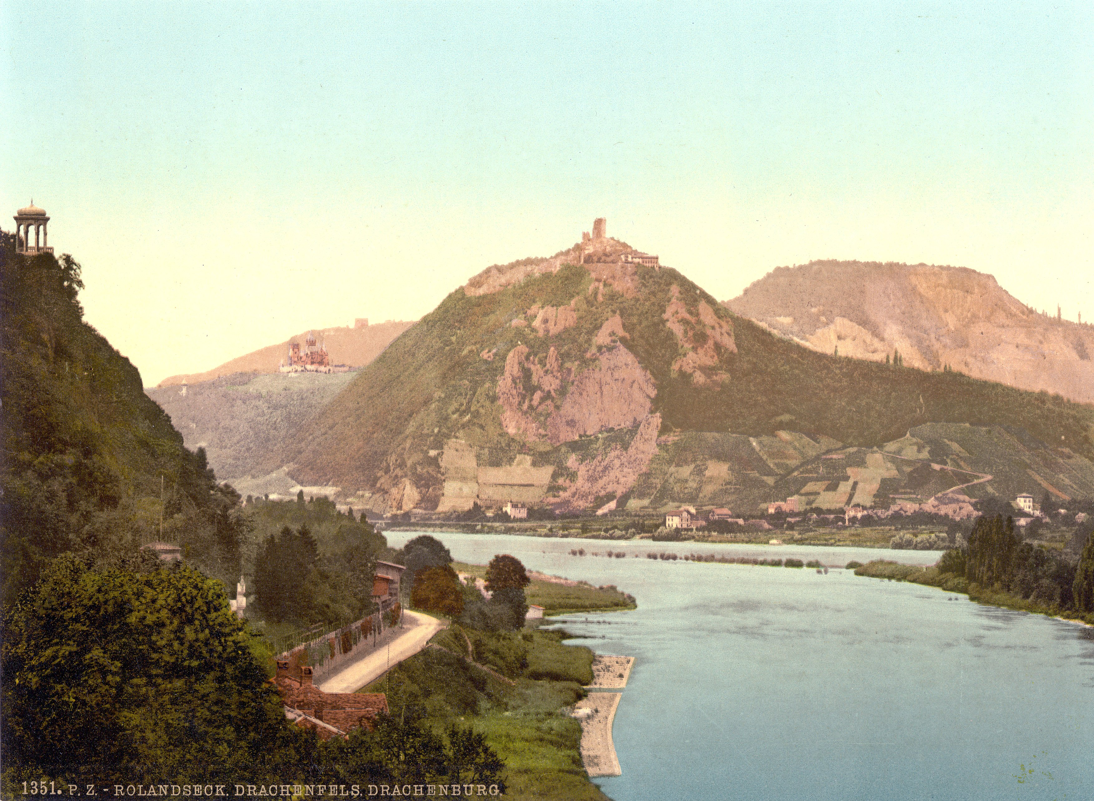 Drachenfels Siebengebirge, Germany (about 1900)